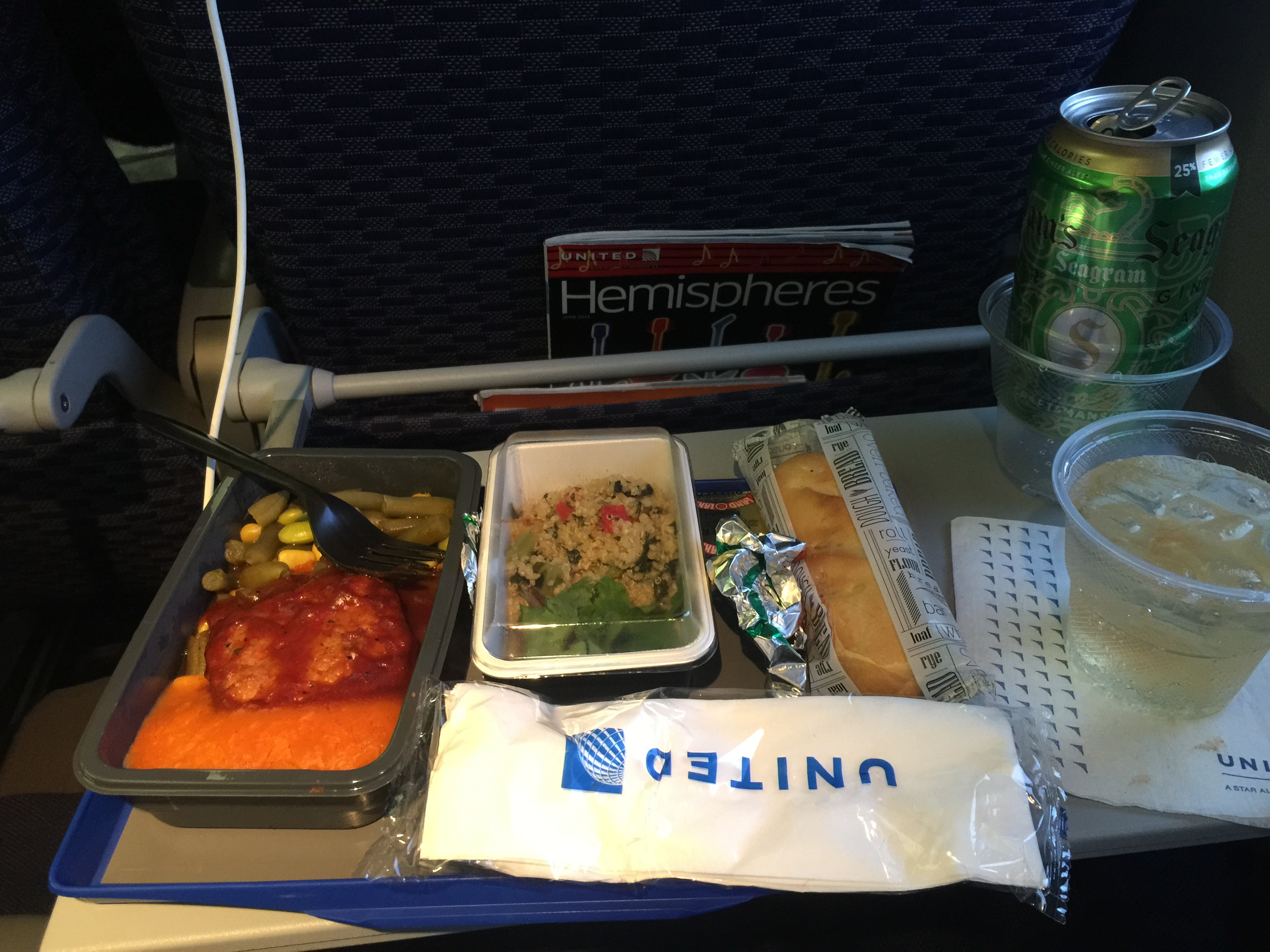 New style meal for transatlantic flights. Pictured here is an economy meal of turkey meatloaf and sweet potato mash with quinoa salad on a flight from Washington to Zurich.